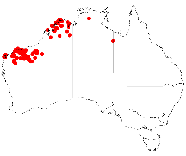 Acacia arida occurrence downloaded from avH on 8 December 2018